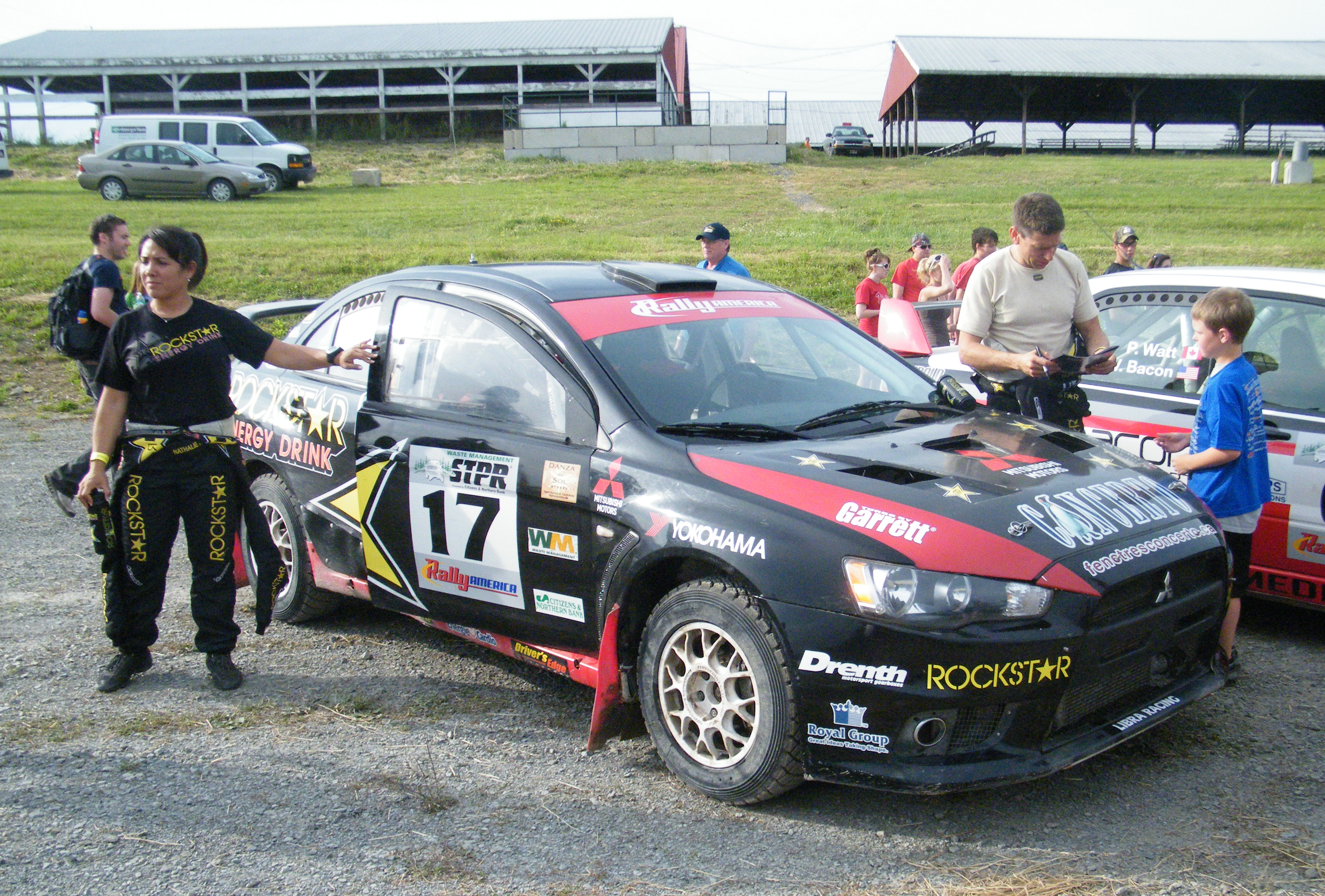 Antoine L'Estage and co-driver Nathalie Richard in their 2009 Mitsubishi Lancer Evo X at the 2010 Susquehannock Trail Performance Rally in Pennsylvania. Round 5 of the 2010 Rally America National Championship.